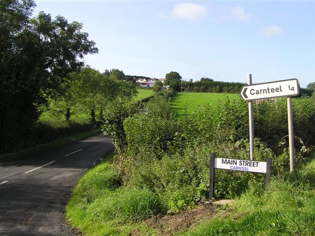 Main Street, Carnteel. You would be through before you knew it!